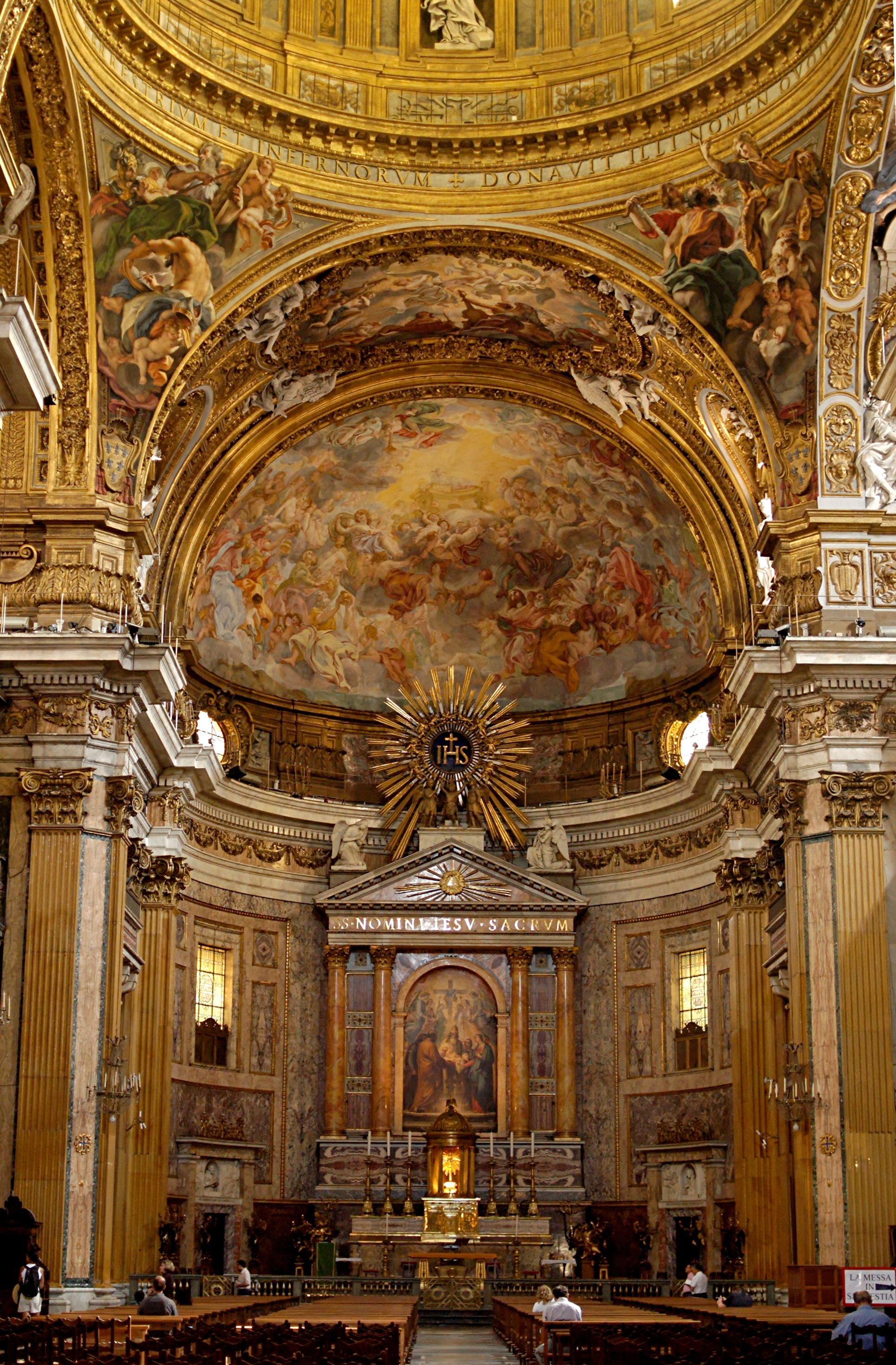 Interior of the Gesù, Rome, Italy.